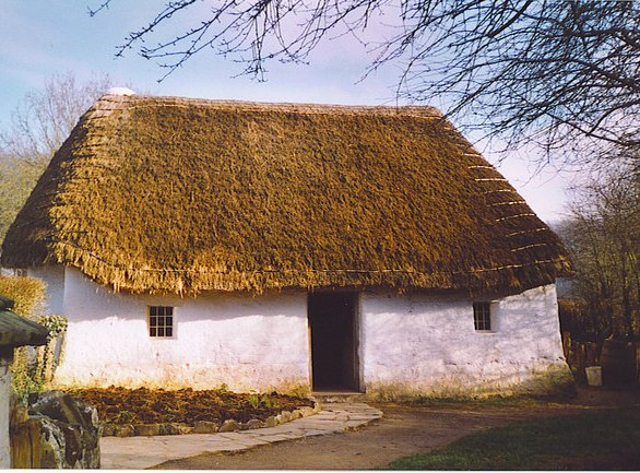 Nant Wallter Cottage. Now in the Museum of Welsh Life, this mud / clay-walled thatched cottage dates from ca 1770. It was home for estate workers in Taliaris, Carmarthenshire.